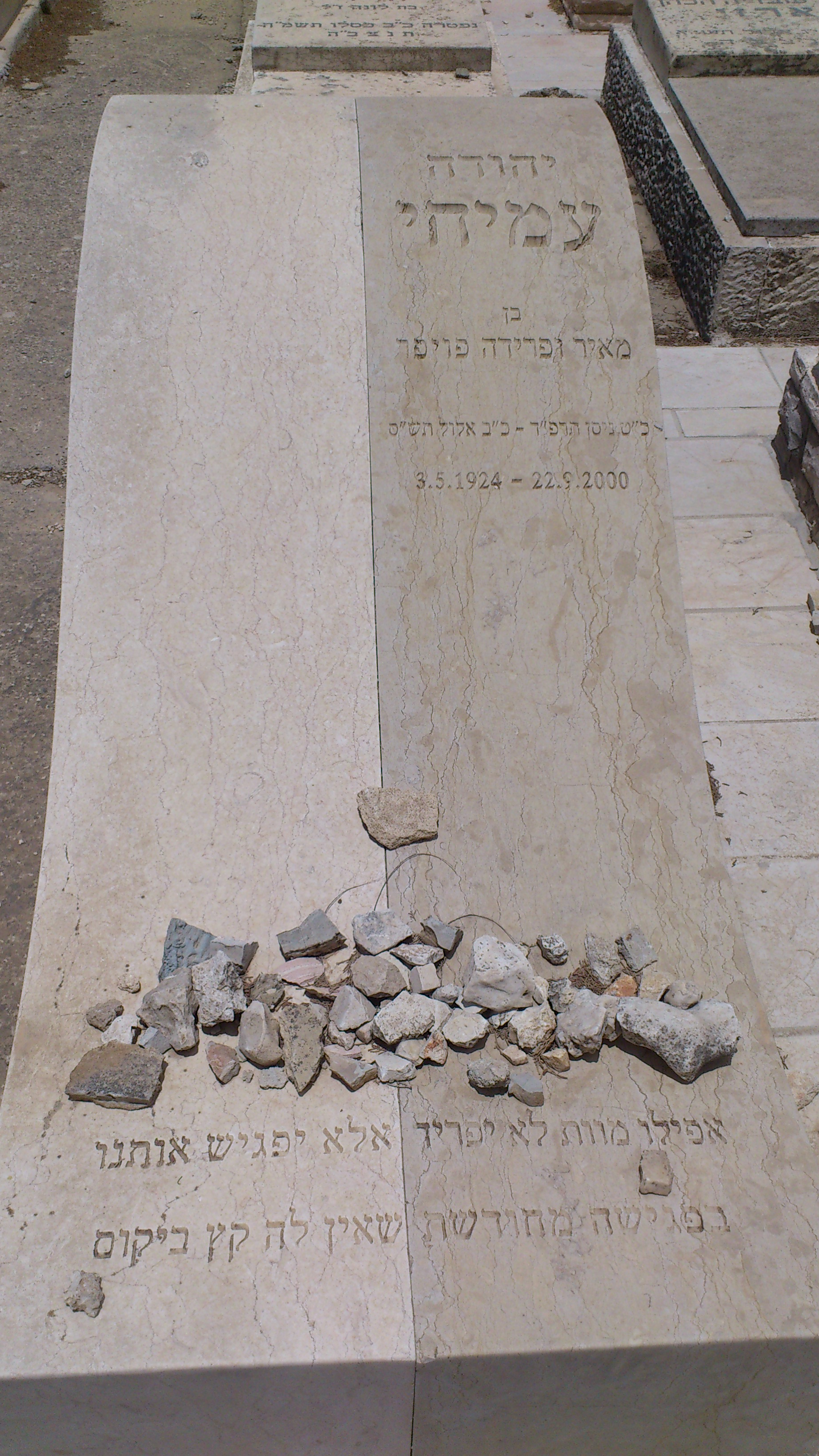 Yehuda Amichai